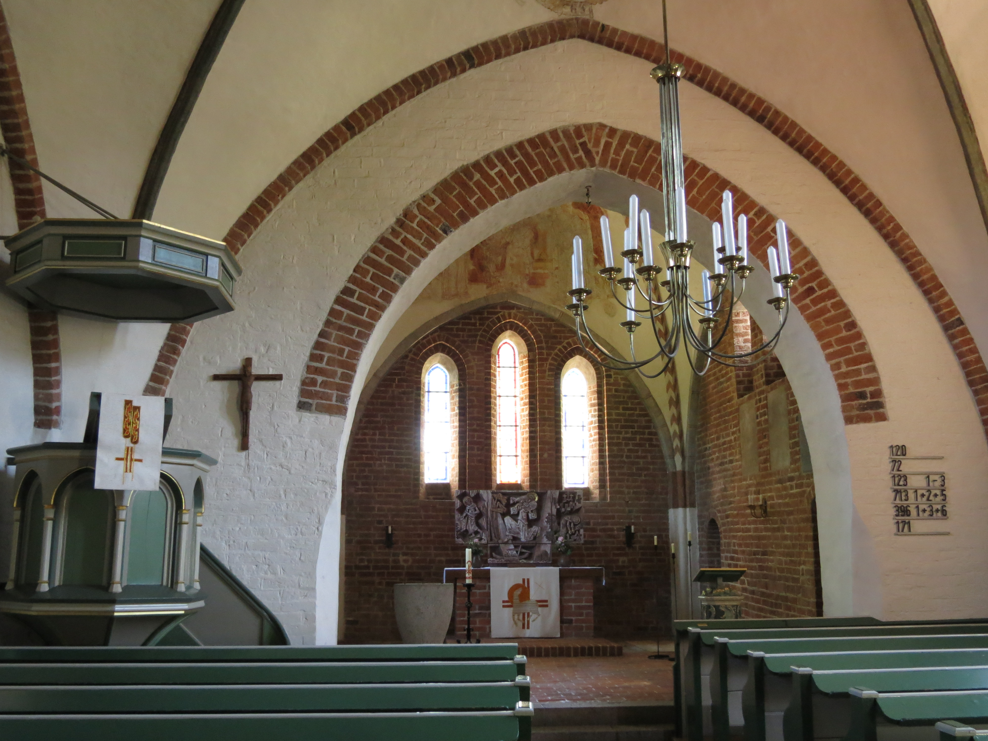 St. Clemens und St. Katharinenkirche, Seedorf, Lkr. Herzogtum Lauenberg, Schleswig-Holstein, Germany, Interior